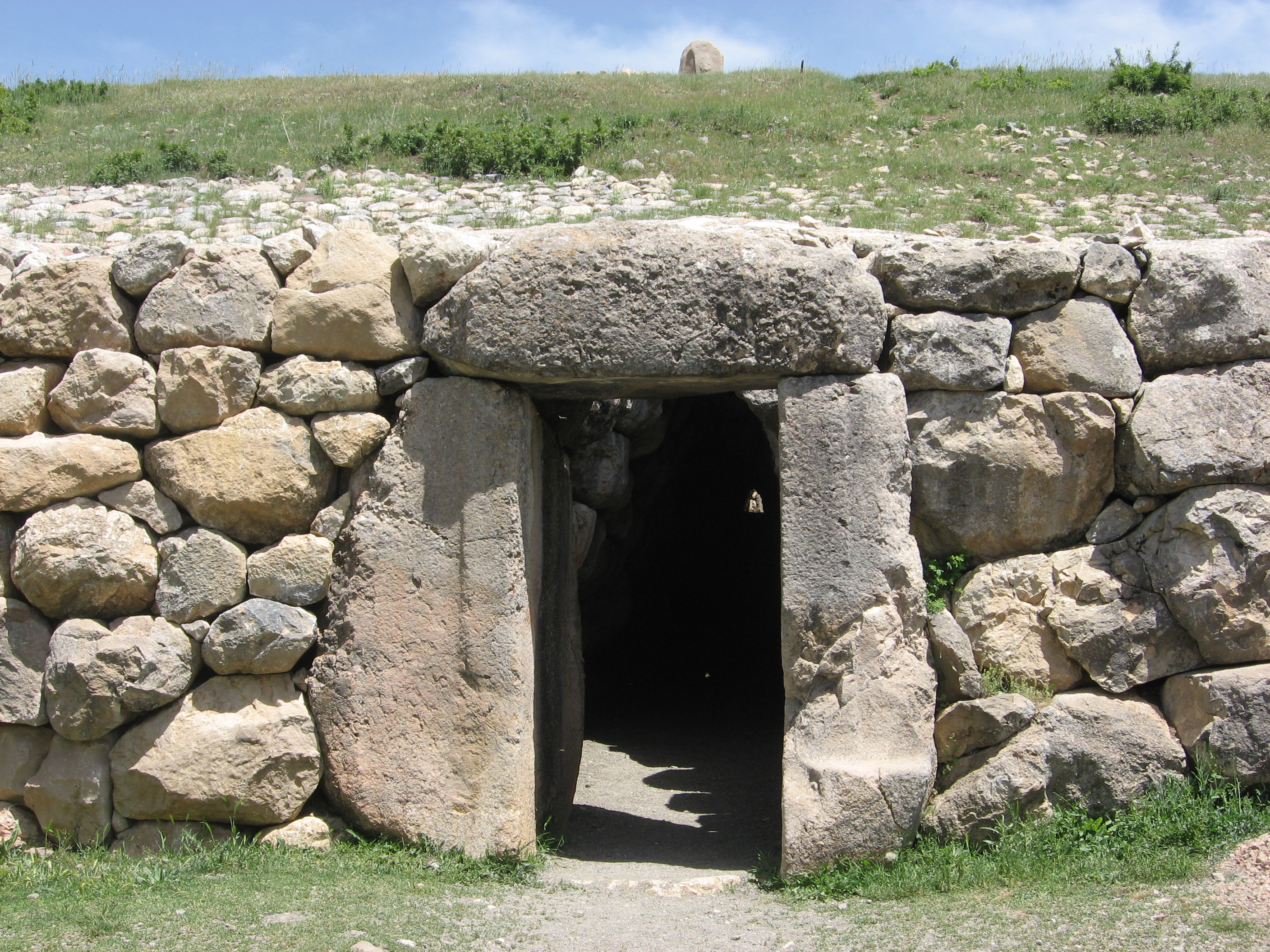 The southern (lower) postern gate at the base of the great rampart of Yerkapi. It opens to the outside of the city of Hattusa. The Sphinx gate (which is located at the top of your picture) sits directly above it at the top of the rampart, where the tunnel opens into the city. Visitors can still walk through the tunnel today.